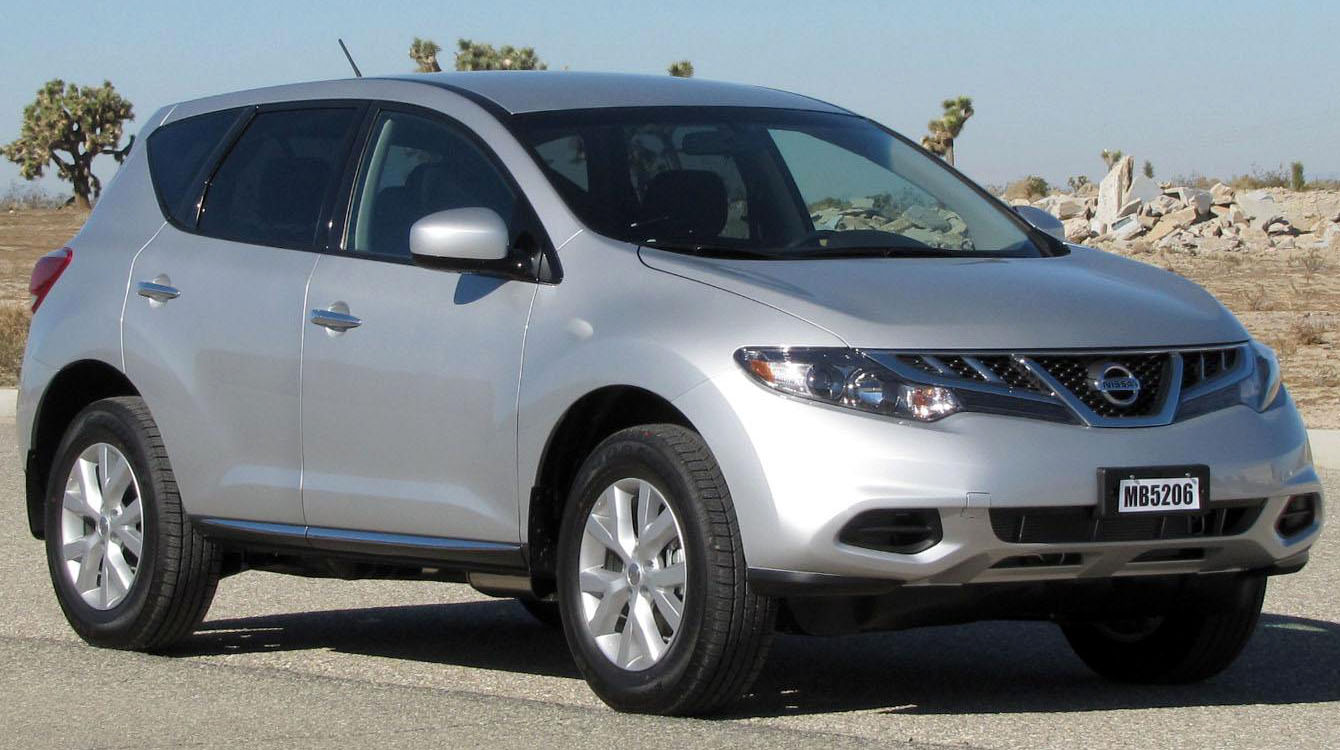 2011 Nissan Murano photographed in USA.